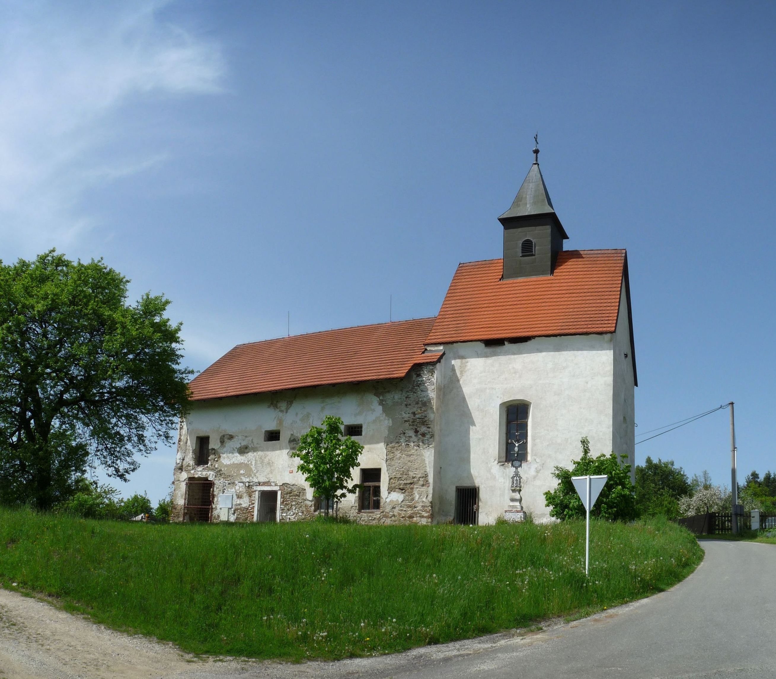 Church of Saints Martin and Tobias in the village of Dobešov, Pelhřimov District, Vysočina Region, Czech Republic.